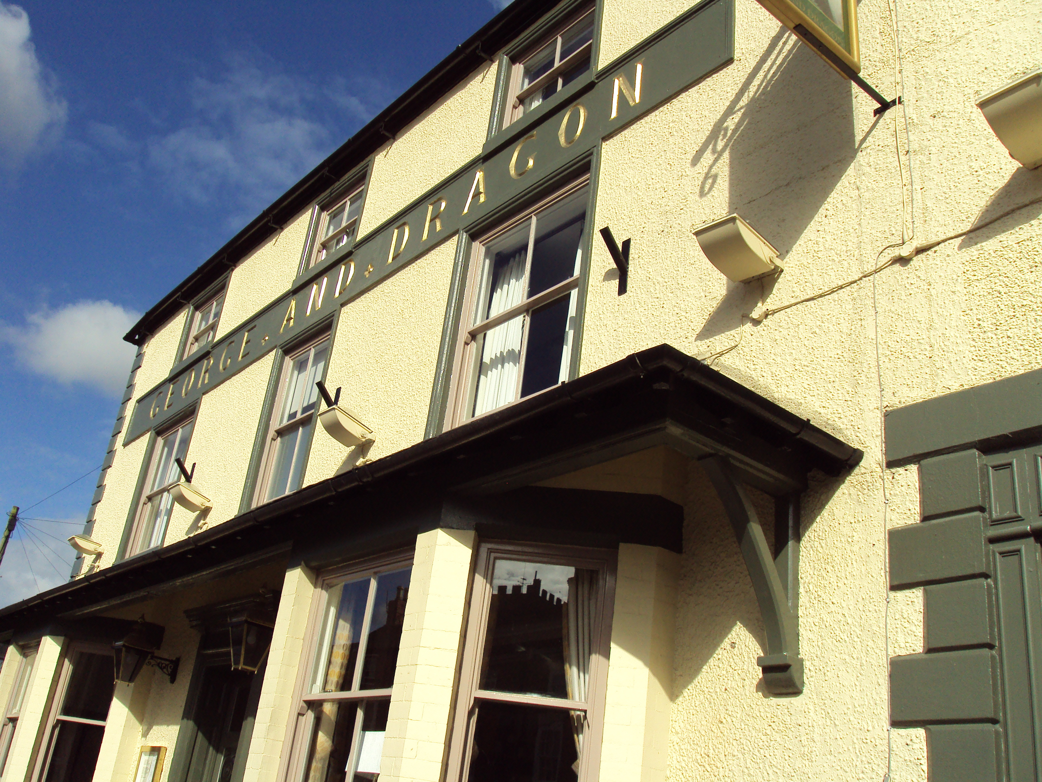 George and Dragon pub, Tarvin, Cheshire, England.